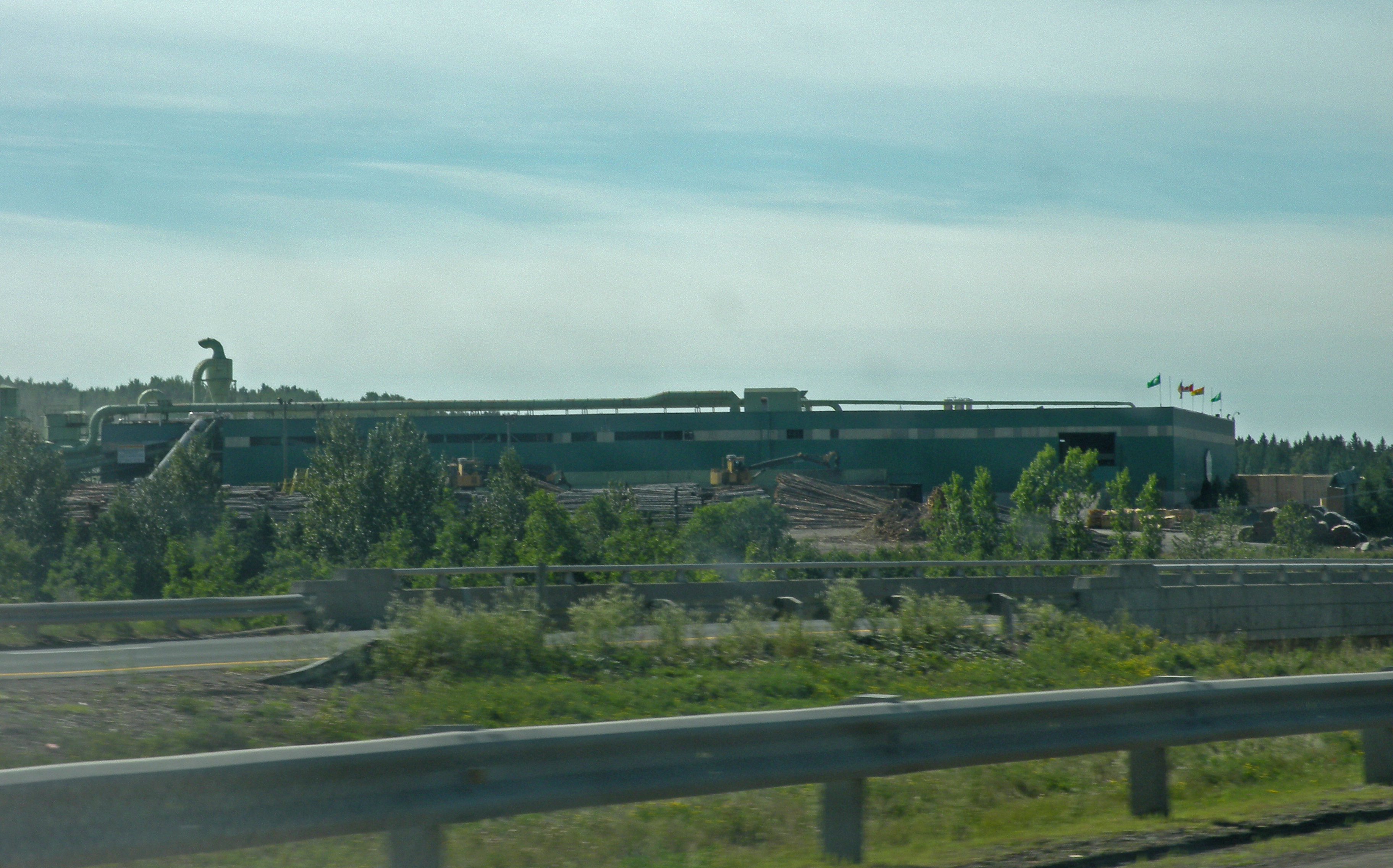 The JD Irving sawmill in Saint-Léonard, New Brunswick, Canada.